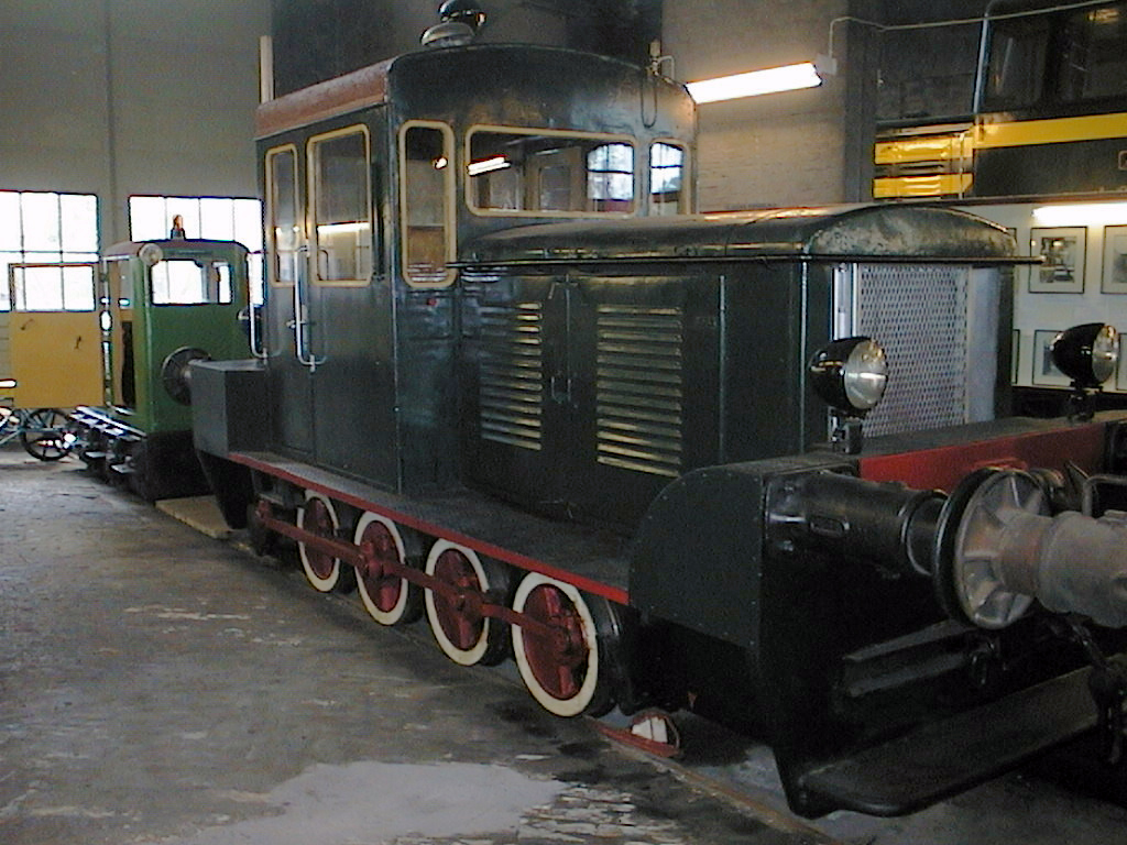 A narrow gauge Dv100 diesel locomotive at Toijala Locomotive Museum in Akaa, Finland